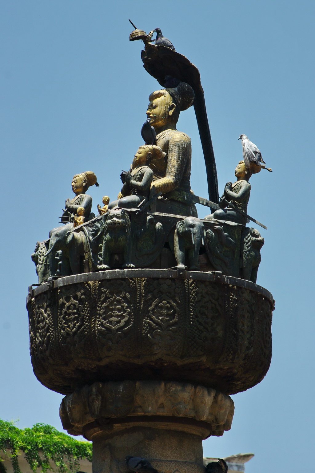 Statue of King Pratap Malla, Kathmandu Durbar Square